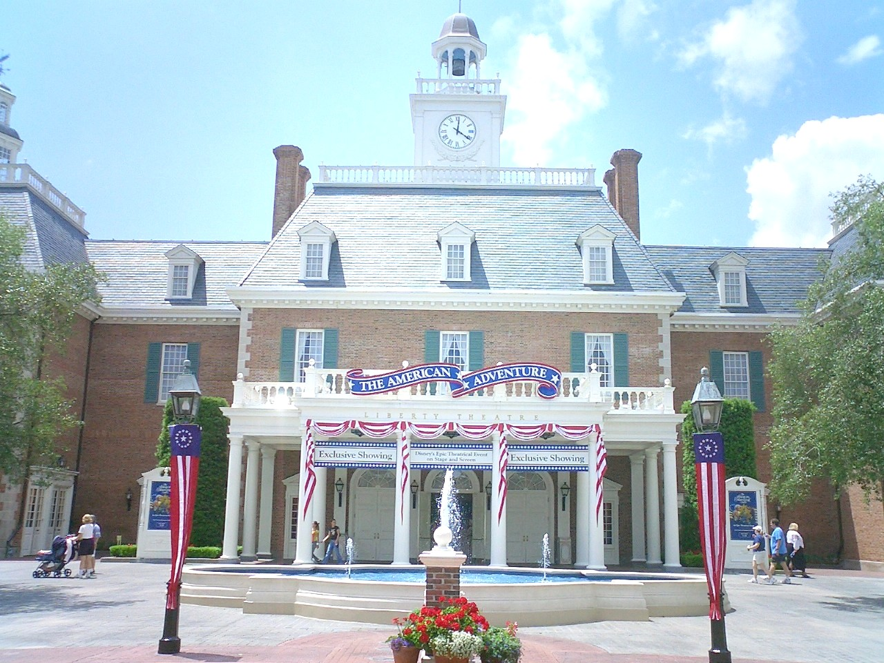 Digital photo taken by Marc Averette